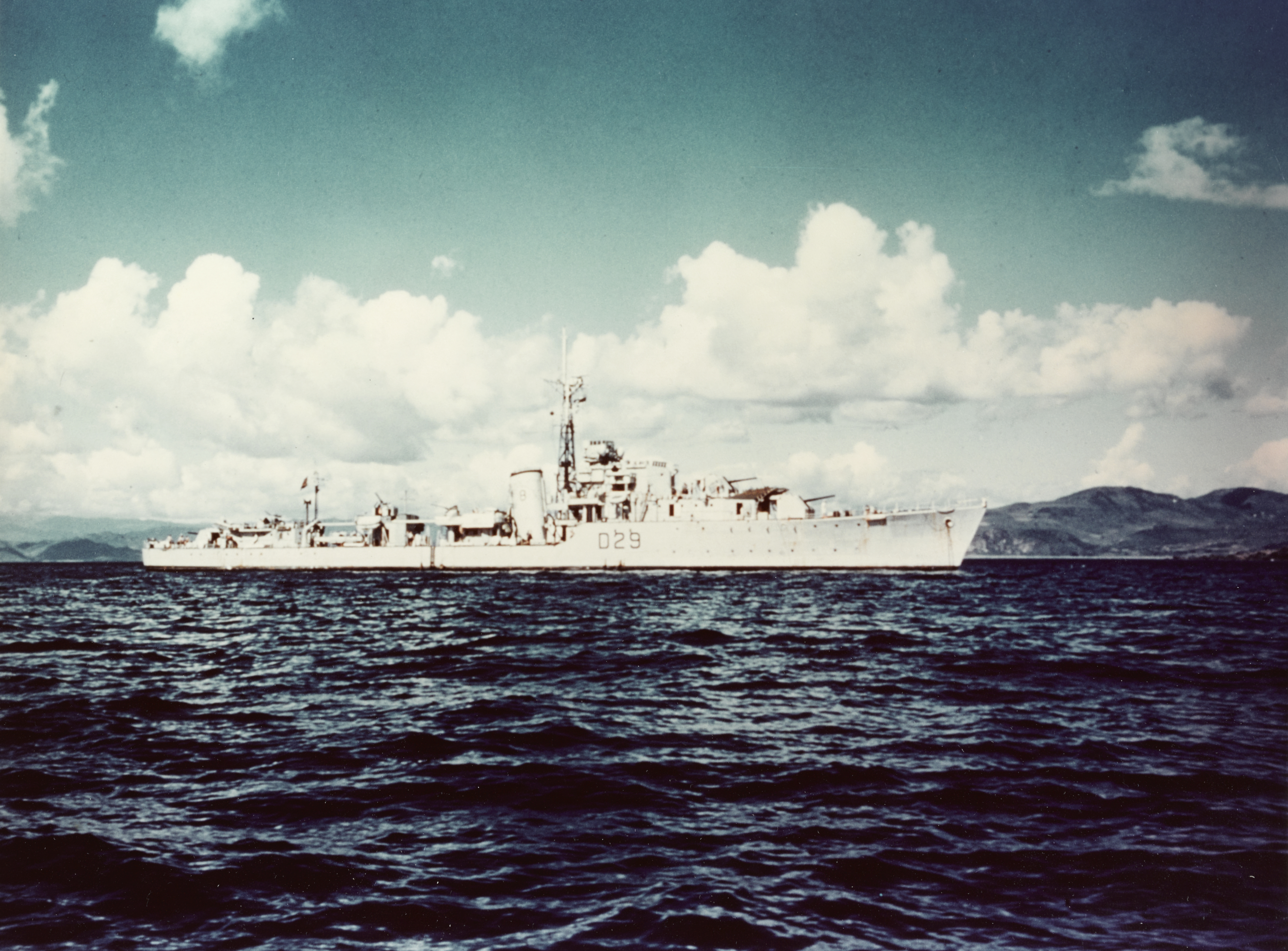 The Royal Navy destroyer HMS Charity (D29) off the Korean coast, while covering "Operation Fishnet", which was intended to destroy North Korean fishing nets in an effort to reduce Communist forces' food supplies. Photograph is dated 16 September 1952.